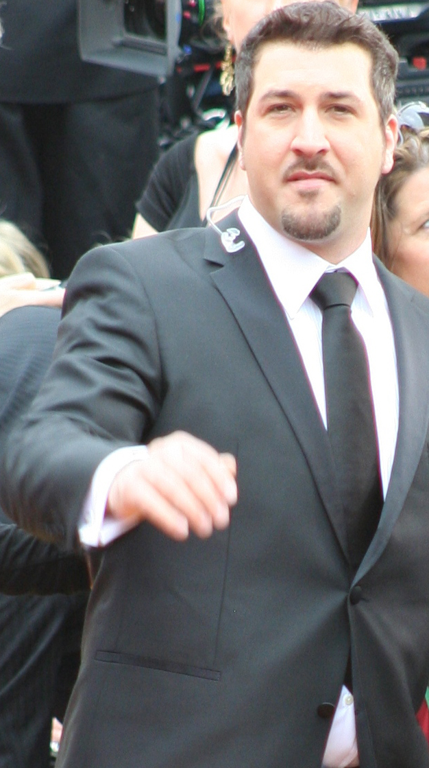 Joey Fatone at the 81st Academy Awards